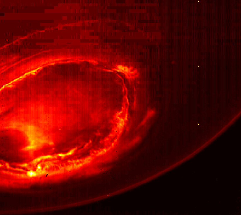 This infrared image gives an unprecedented view of the southern aurora of Jupiter, as captured by NASA's Juno spacecraft on August 27, 2016. The planet's southern aurora can hardly be seen from Earth due to our home planet's position in respect to Jupiter's south pole. Juno's unique polar orbit provides the first opportunity to observe this region of the gas-giant planet in detail. Juno's Jovian Infrared Auroral Mapper (JIRAM) camera acquired the view at wavelengths ranging from 3.3 to 3.6 microns -- the wavelengths of light emitted by excited hydrogen ions in the polar regions. The view is a mosaic of three images taken just minutes apart from each other, about four hours after the perijove pass while the spacecraft was moving away from Jupiter. NASA's Jet Propulsion Laboratory, Pasadena, California, manages the Juno mission for the principal investigator, Scott Bolton, of Southwest Research Institute in San Antonio. The Juno mission is part of the New Frontiers Program managed at NASA's Marshall Space Flight Center in Huntsville, Alabama. Lockheed Martin Space Systems, Denver, built the spacecraft. JPL is a division of Caltech in Pasadena. NASA's Jet Propulsion Laboratory, Pasadena, California, manages the Juno mission for the principal investigator, Scott Bolton, of Southwest Research Institute in San Antonio. The Juno mission is part of the New Frontiers Program managed at NASA's Marshall Space Flight Center in Huntsville, Alabama. Lockheed Martin Space Systems, Denver, built the spacecraft. JPL is a division of Caltech in Pasadena. More information about Juno is online at and